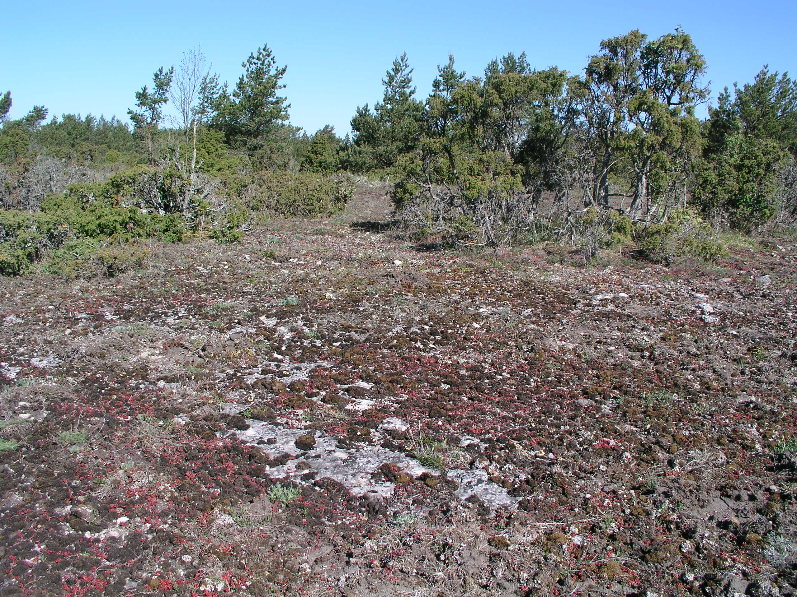 Festucetum-type alvar grassland in Atla, Saaremaa